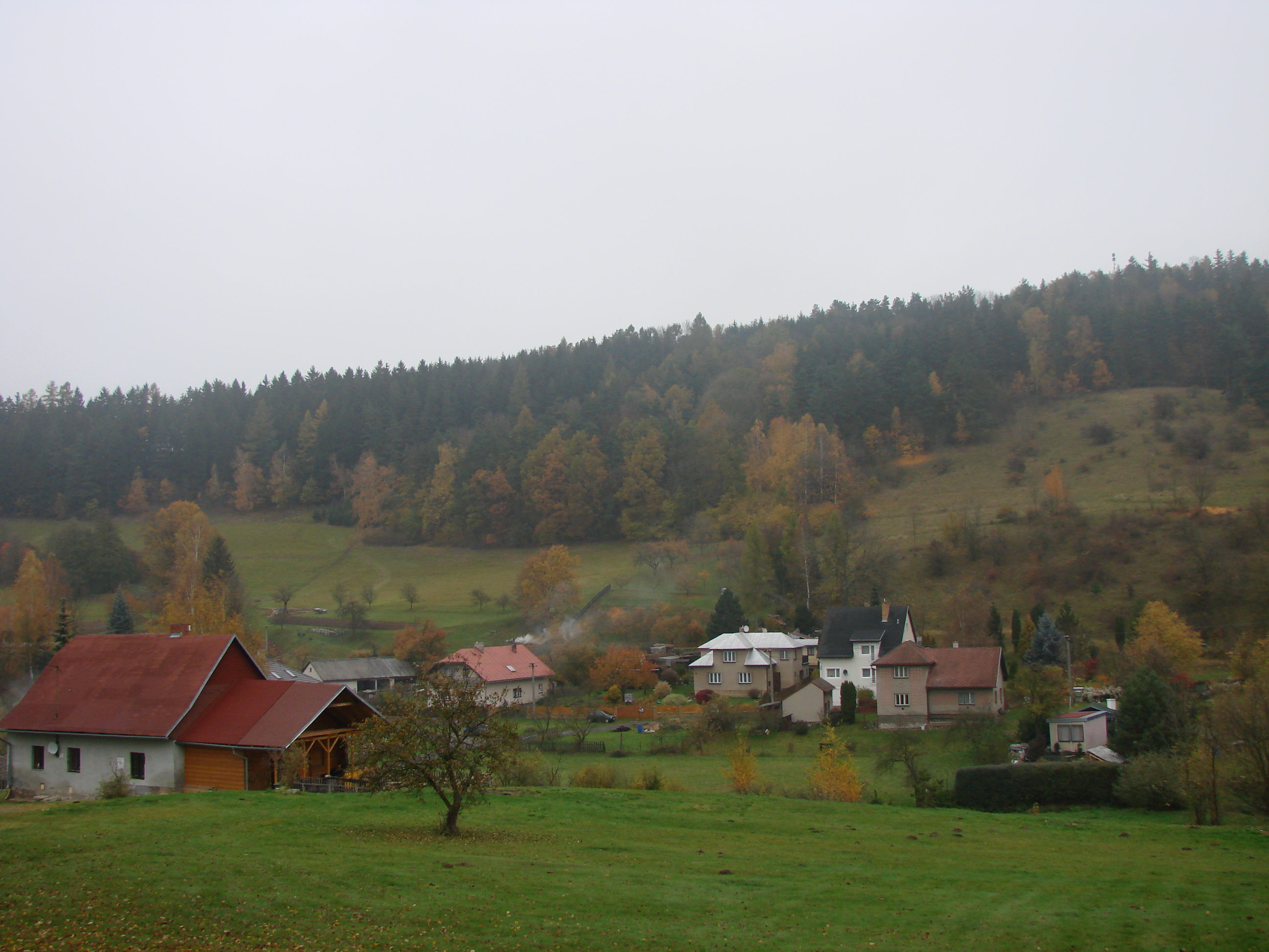 View of the village of Nový Studenec, the Czech Republic.